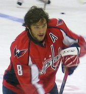 Alexander Ovechkin of the Washington Capitals warming up before a game, October 5, 2008, cropped from original and uploaded to Flickr by Voran (talk · contribs).IMG_9502